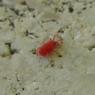 Tetranychus urticae